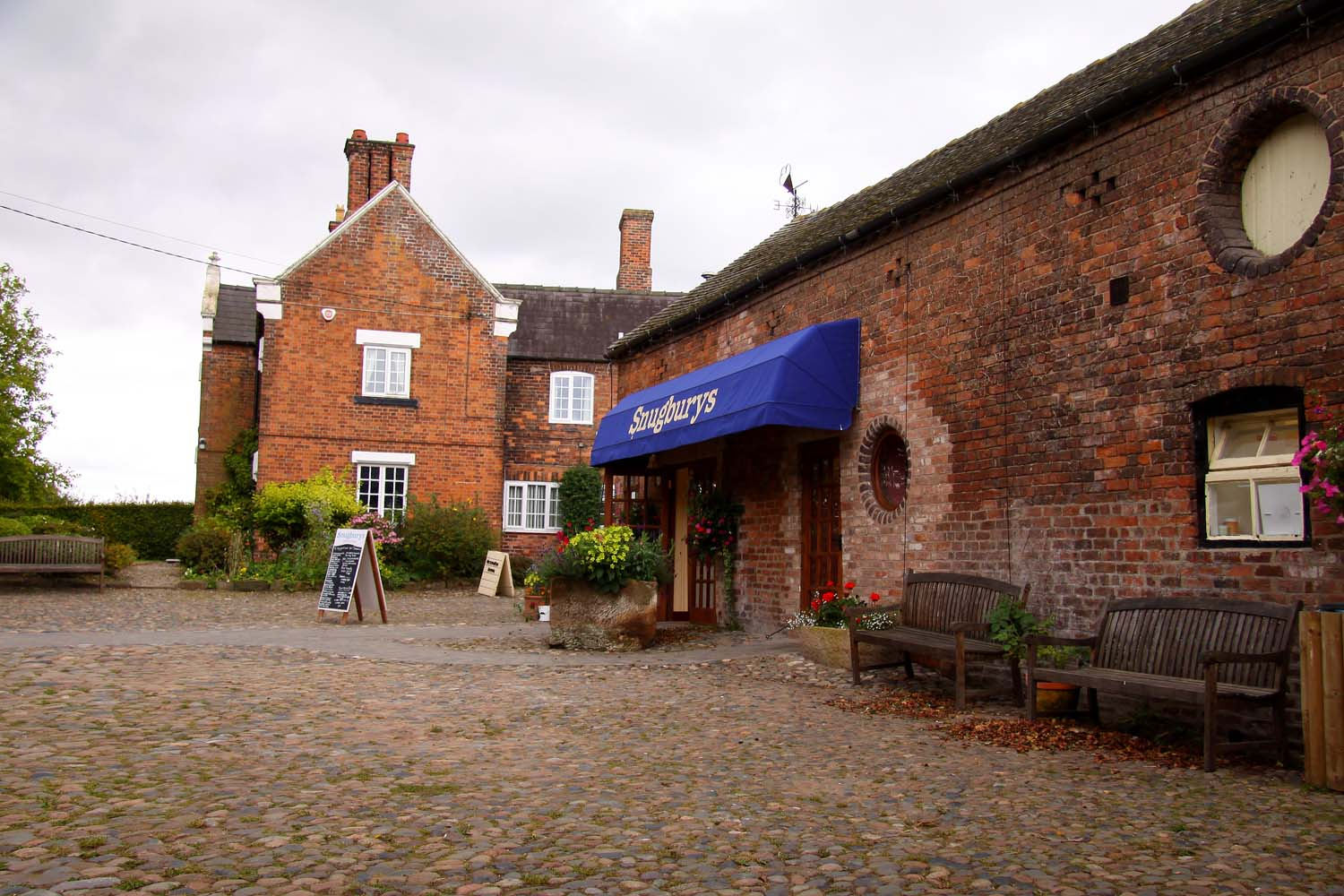 Snugsburys Ice Cream Shop at Park Farm